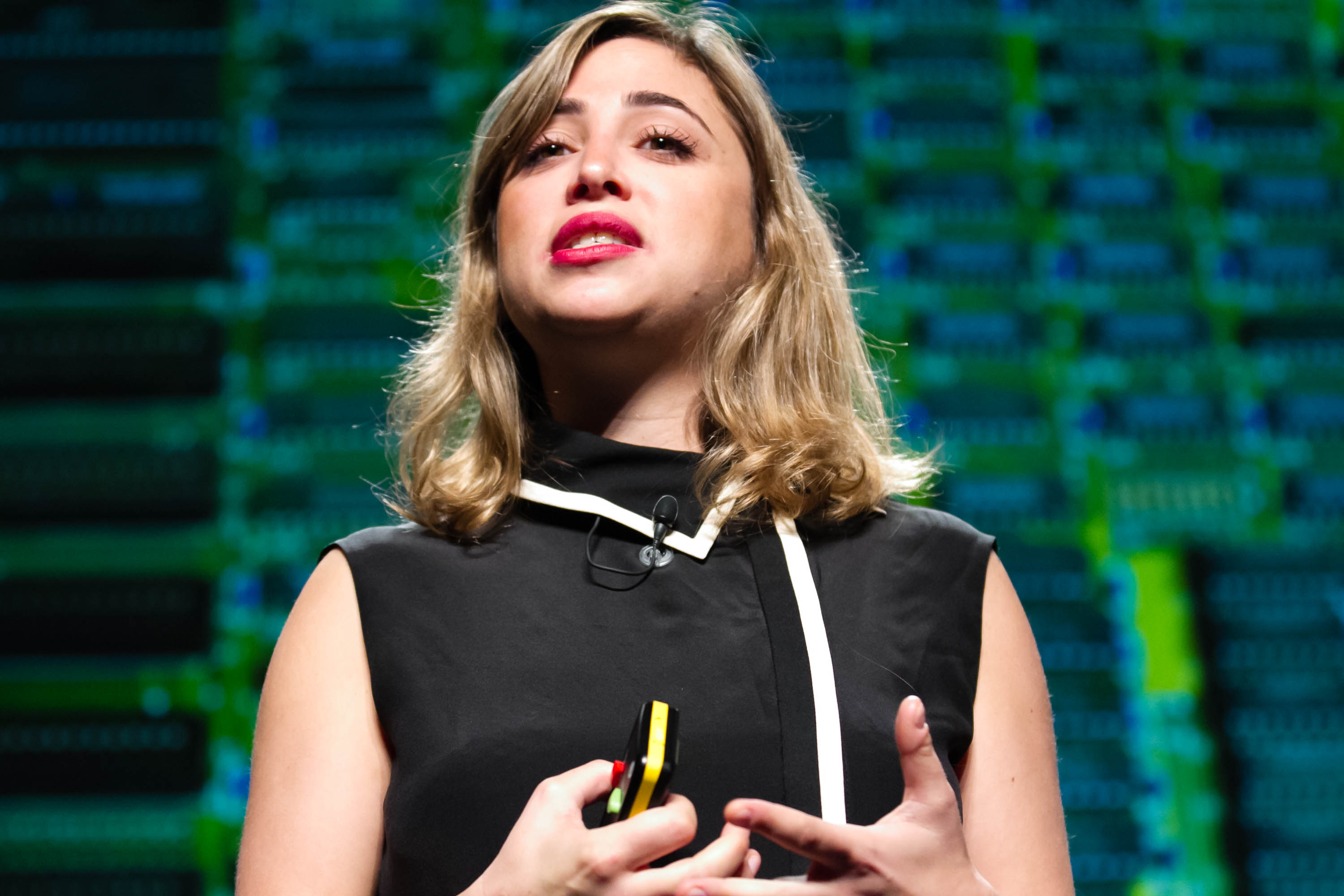 Ayah Bdeir by Asa Mathat for PopTech